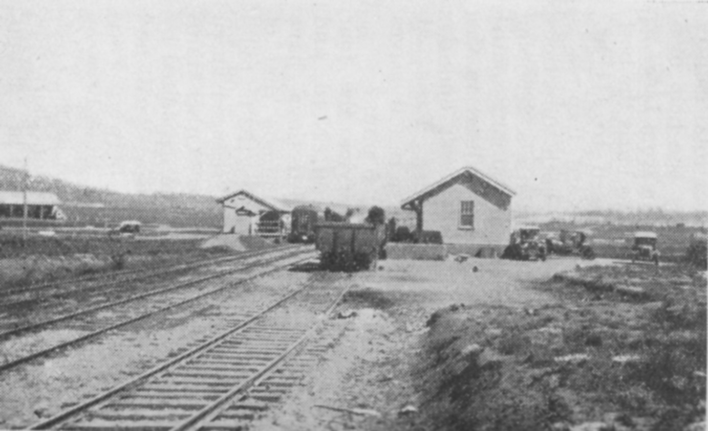 Scan of a photograph reproduced in a magazine more than 70 years old and now in the Public Domain. Source Railway Magazine (1933) "Overseas Railways: Some Australian Railway Scenes", 72 (432), p. 444. Caption: "Canberra Station in 1929, Commonwealth Railways". Extract from text: "... from the camera of Mr. H. Marks. ... the first station at the Commonwealth capital, Canberra, which, as is well known, has been created on a site whose completely undeveloped character, prior to its selection for this purpose, is apparent in the photograph." (ibid., p. 445).